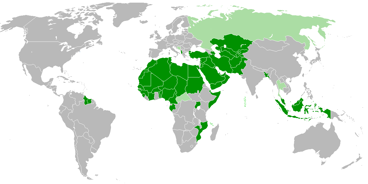 Members of OIC